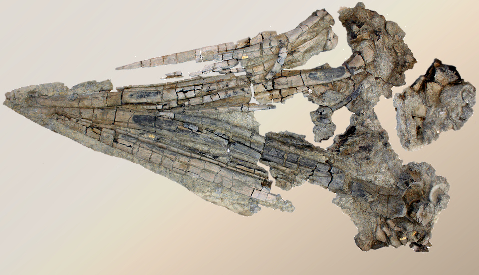 Skull and partial cervical region of Acamptonectes densus (SNHM1284-R).